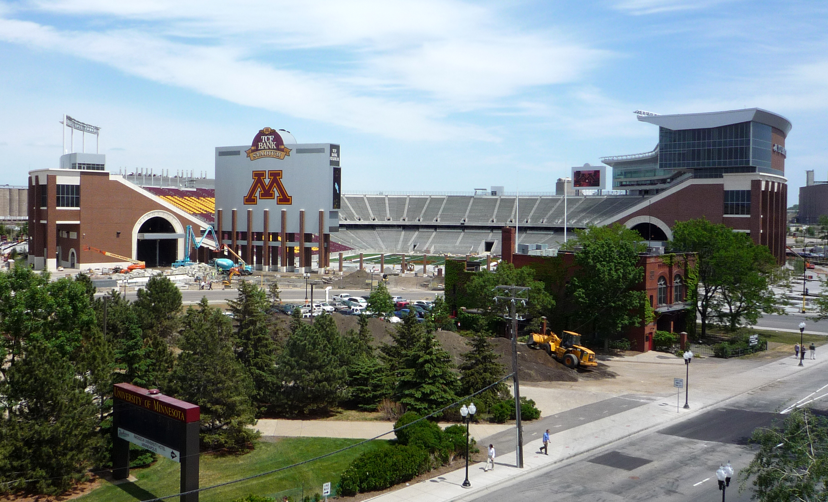 The under-construction TCF Bank Stadium, the future football stadium for the Minnesota Golden Gophers college football team at the University of Minnesota in Minneapolis, Minnesota.